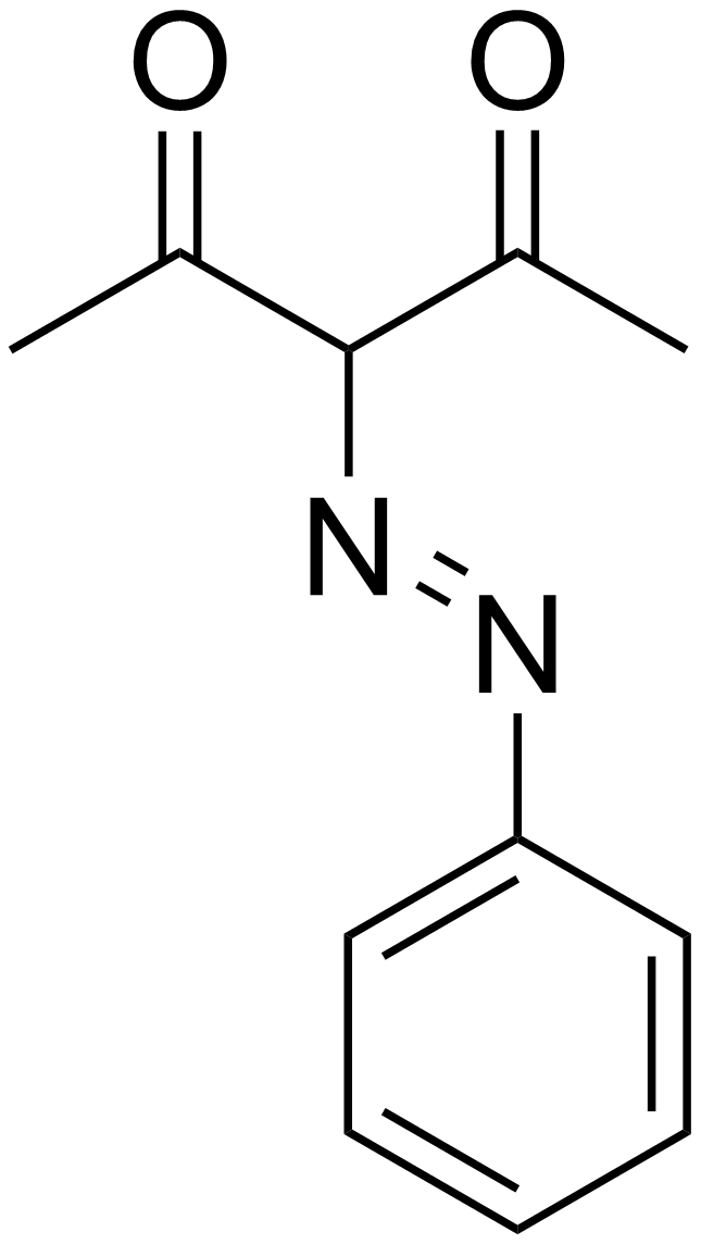 Chemical structure of 3-Phenylazoacetylacetone; phenyl-azo-acetylaceton; 3-(Phenylazo)pentane-2,4-dione